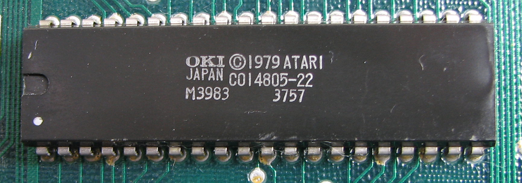 A GTIA,NTSC CO14805 mounted on an Atari 130XE motherboard.